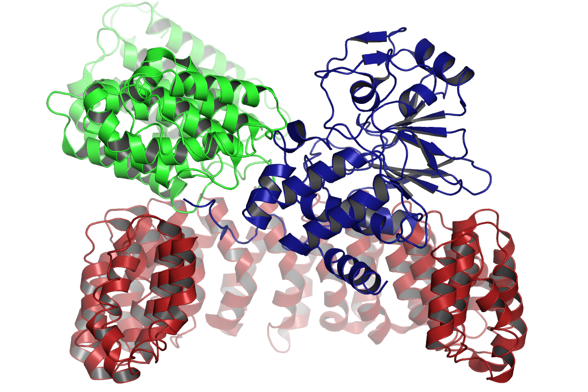 The human protein phosphatase 2A (PP2A) heterotrimeric complex, shown with the regulatory subunit A (red), regulatory subunit B56 (green), and catalytic subunit (dark blue). Compare File:2pf4 pp2a stag.png to see the SV40 polyomavirus small tumor antigen (STag) binding site on the A subunit; this interaction occludes the binding of the B subunit and thereby inactivates the enzyme. Rendered from PDB ID 2IAE: Nature. 2007 Jan 4;445(7123):53-7. Epub 2006 Nov 1. Crystal structure of a protein phosphatase 2A heterotrimeric holoenzyme. Cho US, Xu W. PMID 17086192.